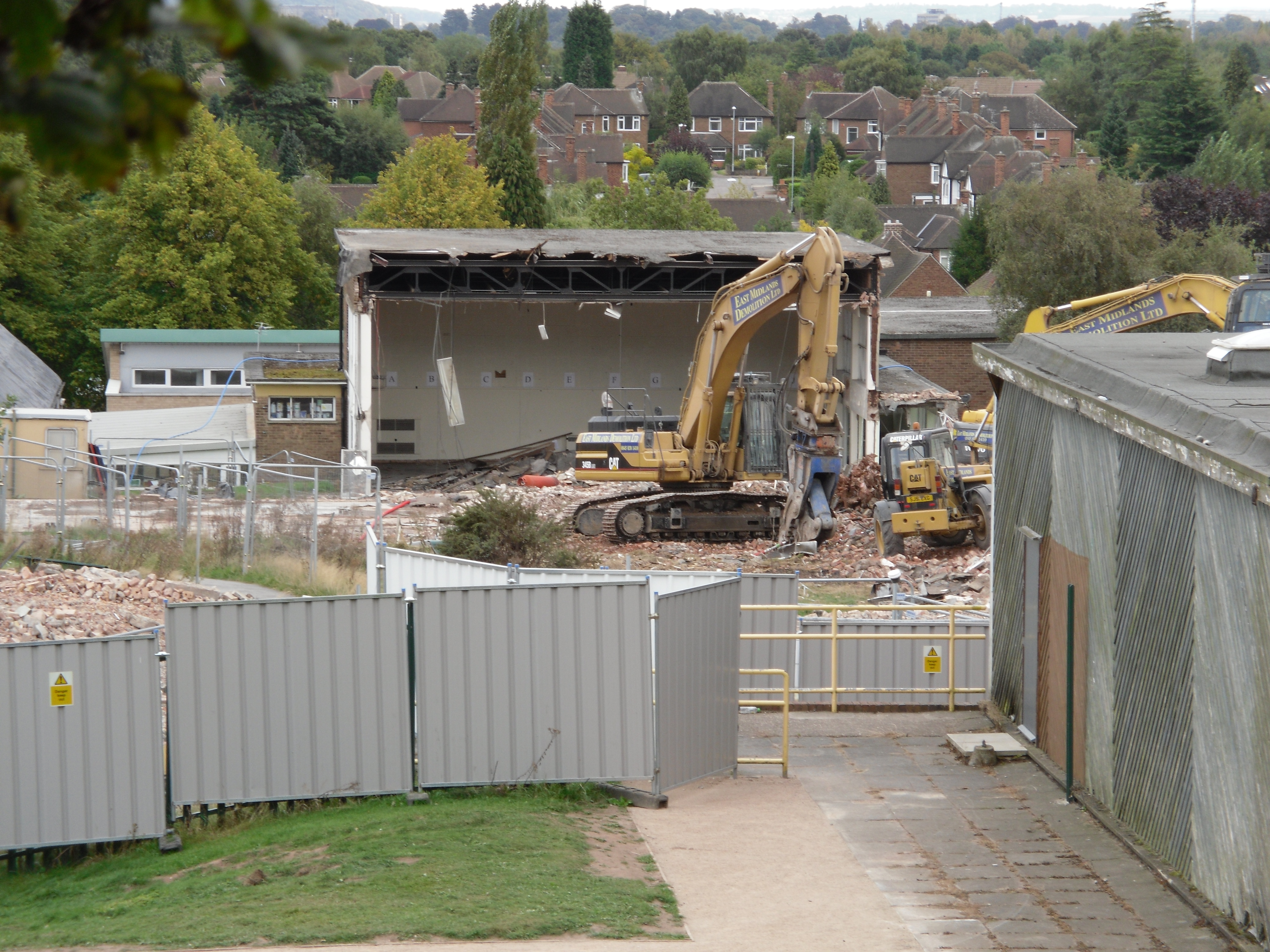 Bramcote Hills Upper School, showing demolished science block, 6th form block, tower block canteen and half demolished school hall. Foreground right music and art block (now temp science block) still remains, not to be demolitshed.